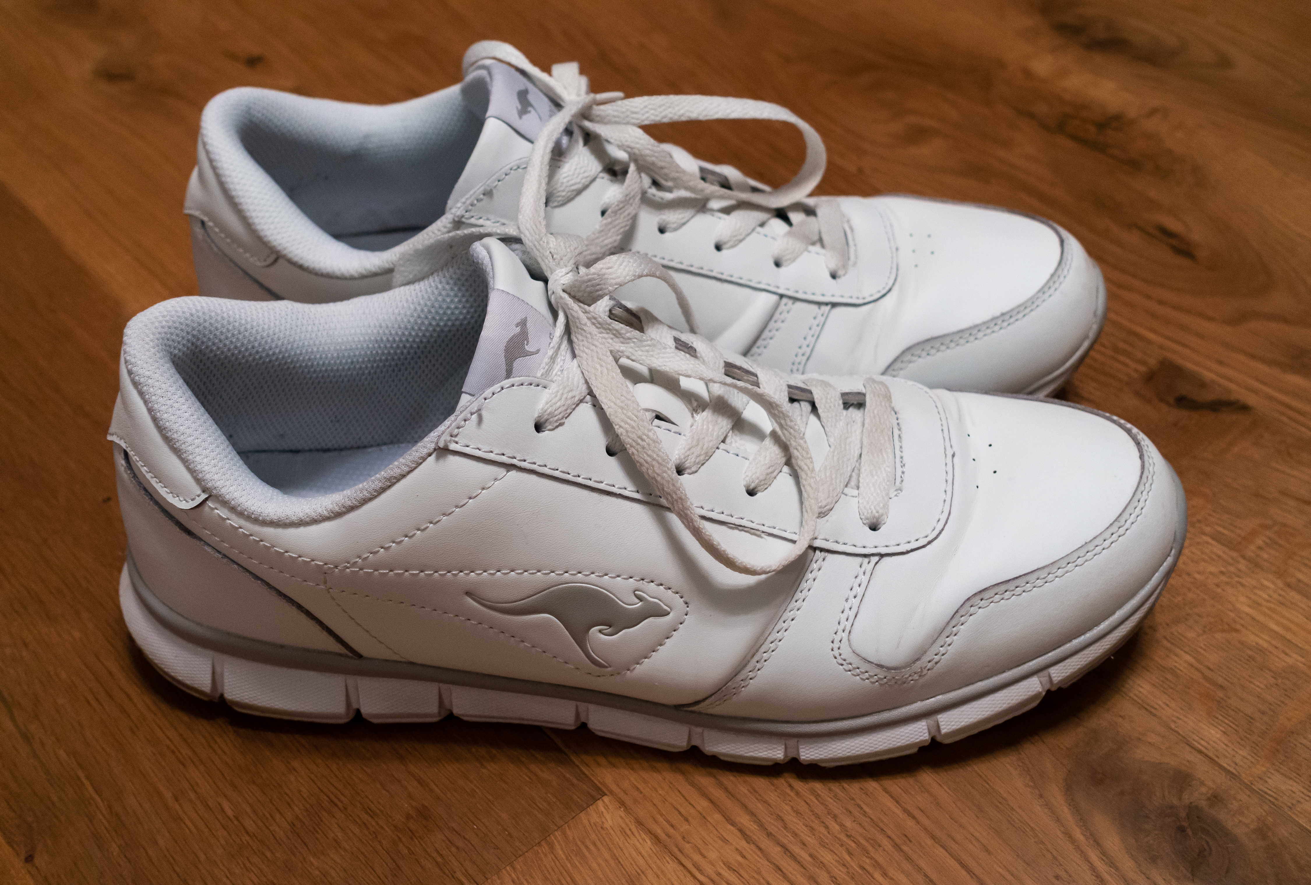 white sneakers from KangaROOS, the pocket is below the tongue